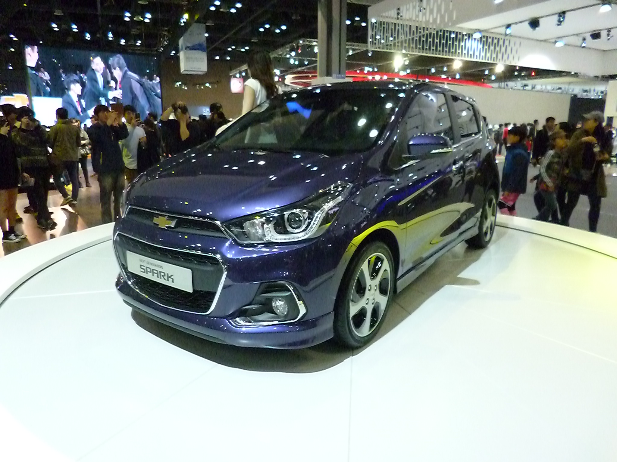 CHEVROLET SPARK